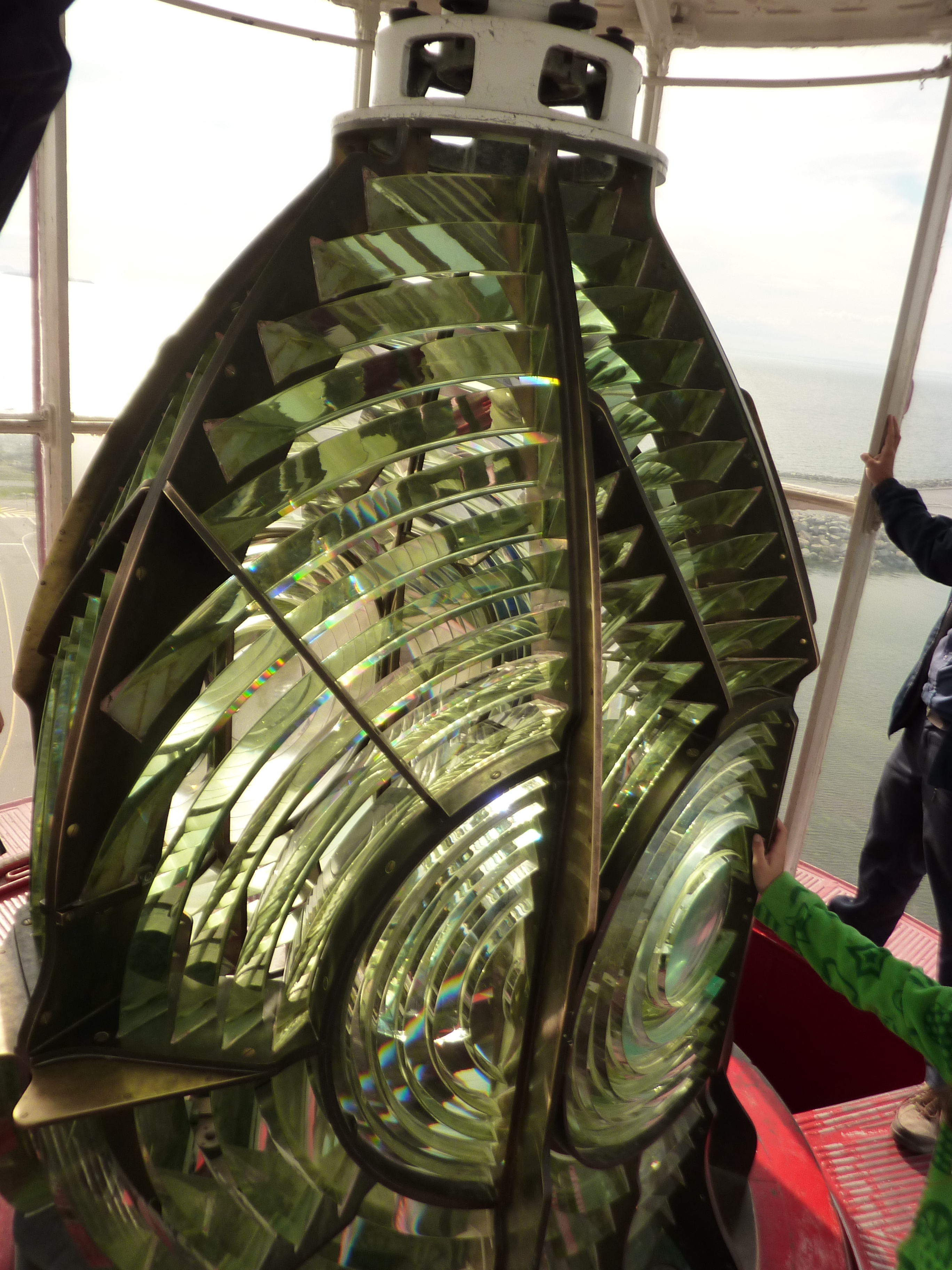 Fresnel lense at the top of the Pointe-au-Pere lighthouse, at the Site Historique Maritime de la Pointe-au-Pere, Rimouski, Quebec, Canada, september 2012.